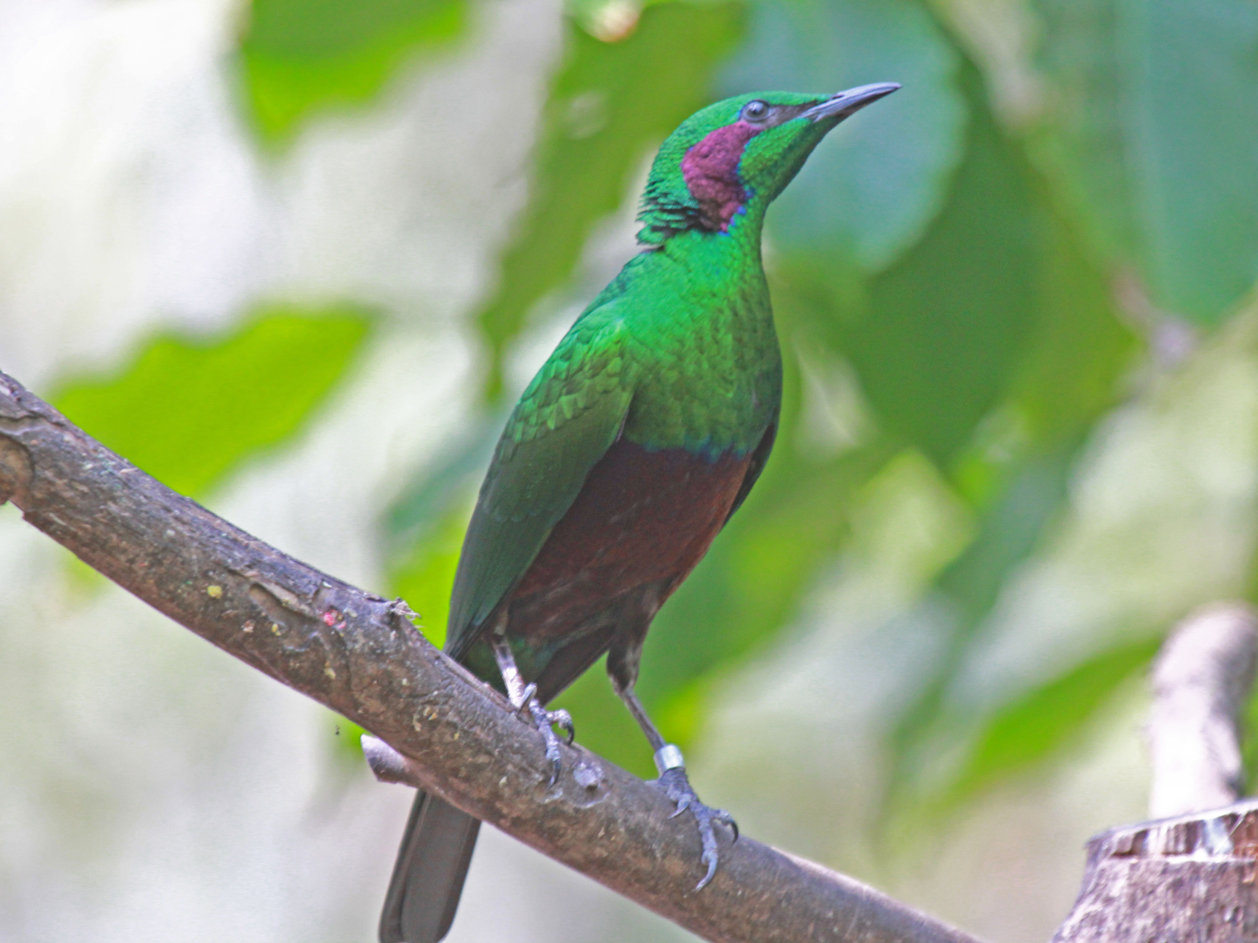 Emerald Starling, also known as Iris Glossy Starling, (Lamprotornis iris) at the North Carolina Zoo in Ashboro, North Carolina